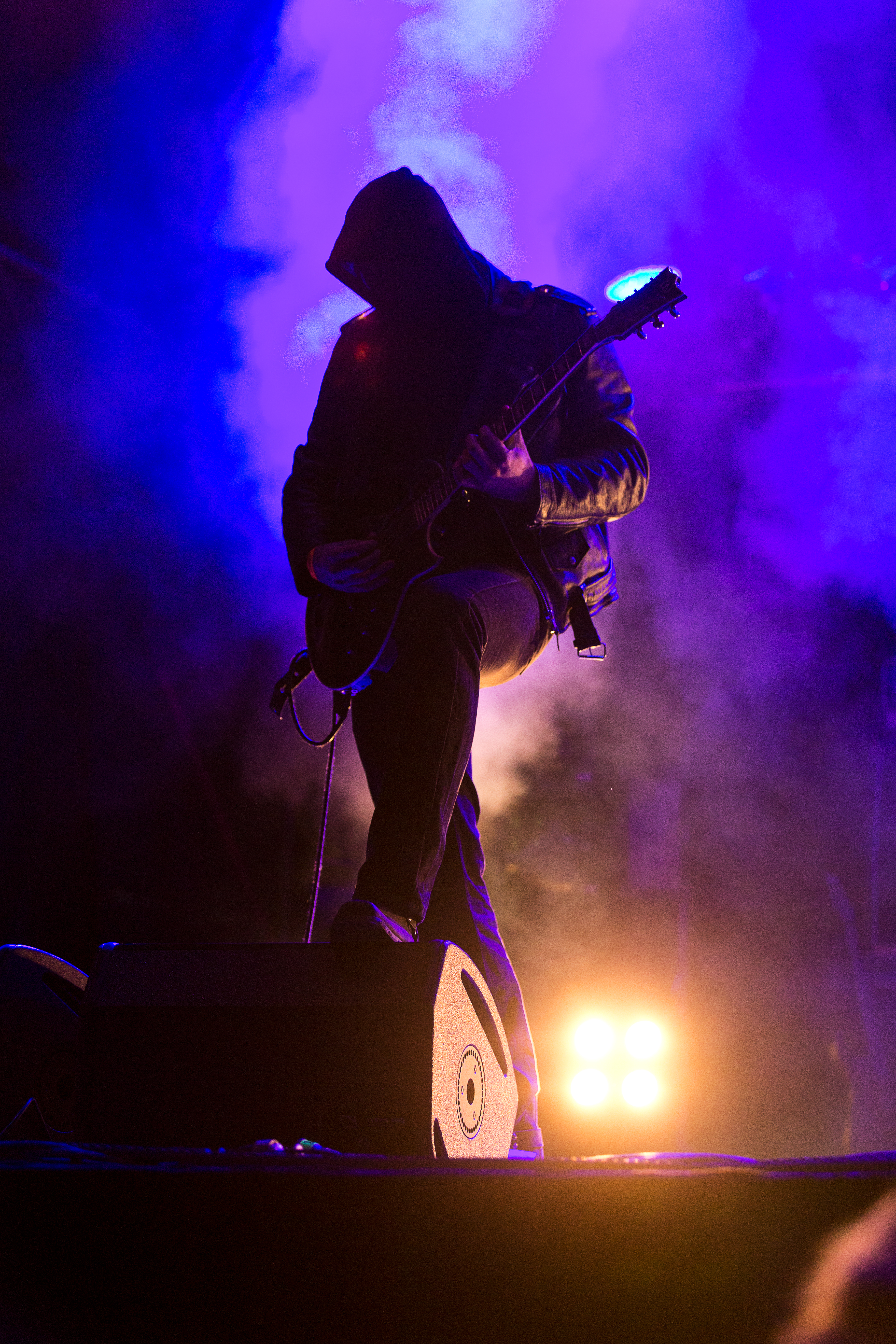 The Polish black metal band Mgła at the Party.San Metal Open Air 2016 in Obermehler-Schlotheim/Germany